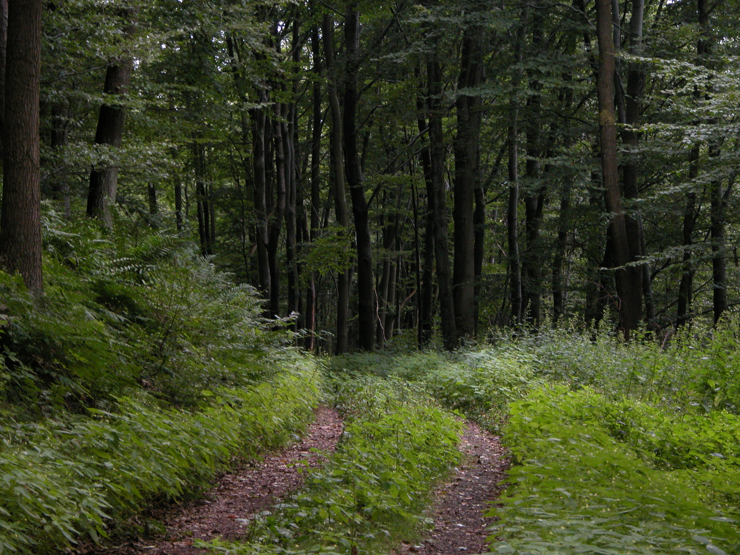 Forest, small mountain, St.Ingbert, Germany